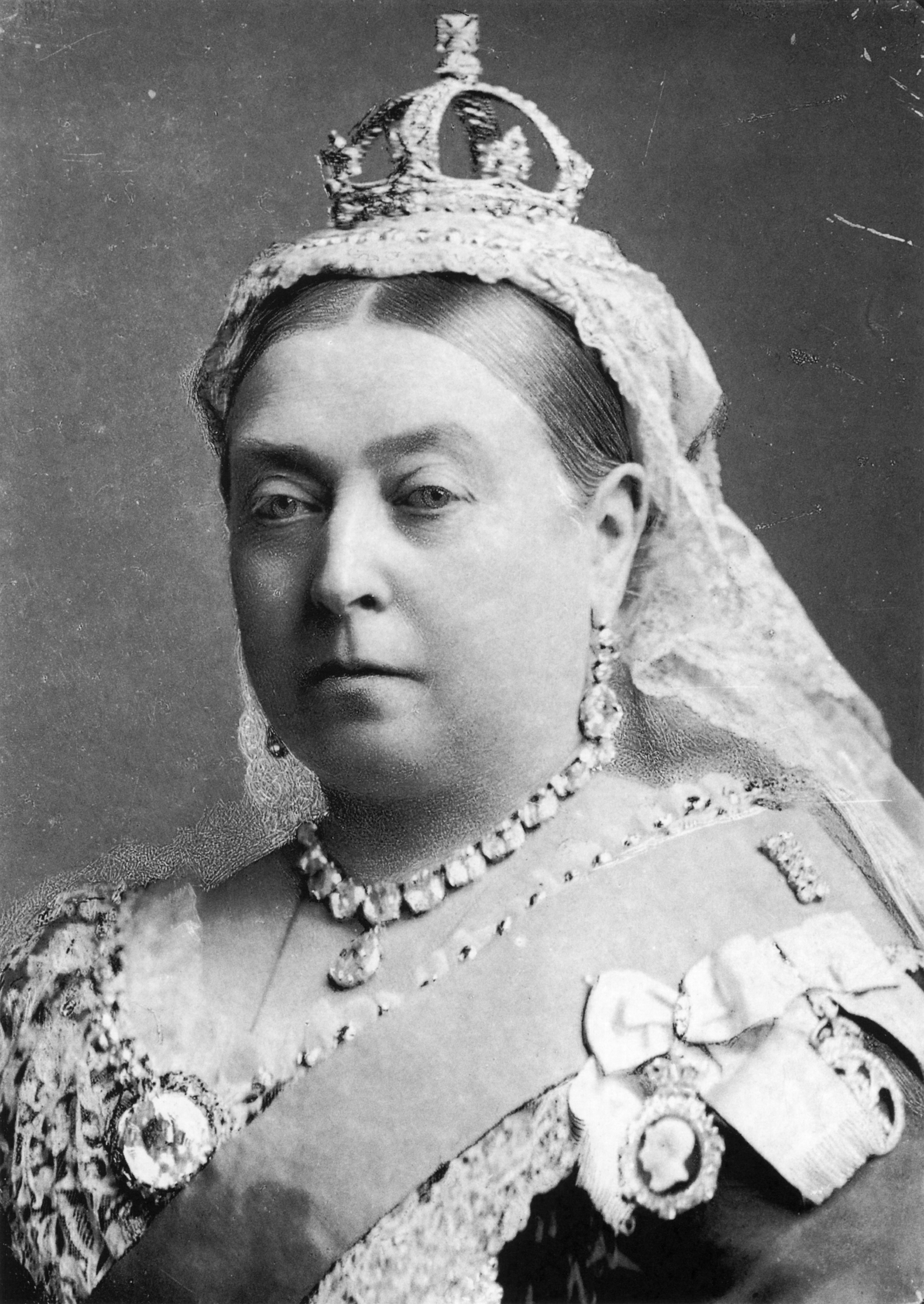 This PNG image has a thumbnail version at File: Queen Victoria by Bassano.jpg. Generally, the thumbnail version should be used when displaying the file from Commons, in order to reduce the file size of thumbnail images. Any edits to the image should be based on this PNG version in order to prevent generational loss, and both versions should be updated. See here for more information. Queen Victoria, 1819–1901, by Bassano, 1887. Glass copy negative, half-plate. Credited as x75805, but looks more like National Portrait Gallery: NPG x8753 While Commons policy accepts the use of this media, one or more third parties have made copyright claims against Wikimedia Commons in relation to the work from which this is sourced or a purely mechanical reproduction thereof. This may be due to recognition of the "sweat of the brow" doctrine, allowing works to be eligible for protection through skill and labour, and not purely by originality as is the case in the United States (where this website is hosted). These claims may or may not be valid in all jurisdictions. As such, use of this image in the jurisdiction of the claimant or other countries may be regarded as copyright infringement. Please see Commons:When to use the PD-Art tag for more information. See User:Dcoetzee/NPG legal threat for original threat and National Portrait Gallery and Wikimedia Foundation copyright dispute for more information. This tag does not indicate the copyright status of the attached work. A normal copyright tag is still required. See Commons:Licensing for more information. .